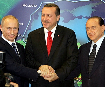 Russian president Vladimir Putin and Turkish Prime Minister Recep Tayyip Erdoğan and Italian Prime Minister Silvio Berlusconi at the opening of the Blue Stream Gas Pipeline.